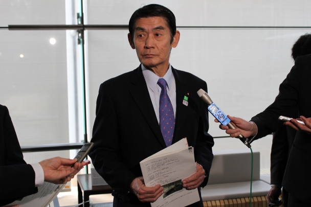 Masahiro Imamura, Minister for Reconstruction, attended the press conference at the Prime Minister's Official Residence in Chiyoda Ward, Tōkyō Metropolis on March 7, 2017.